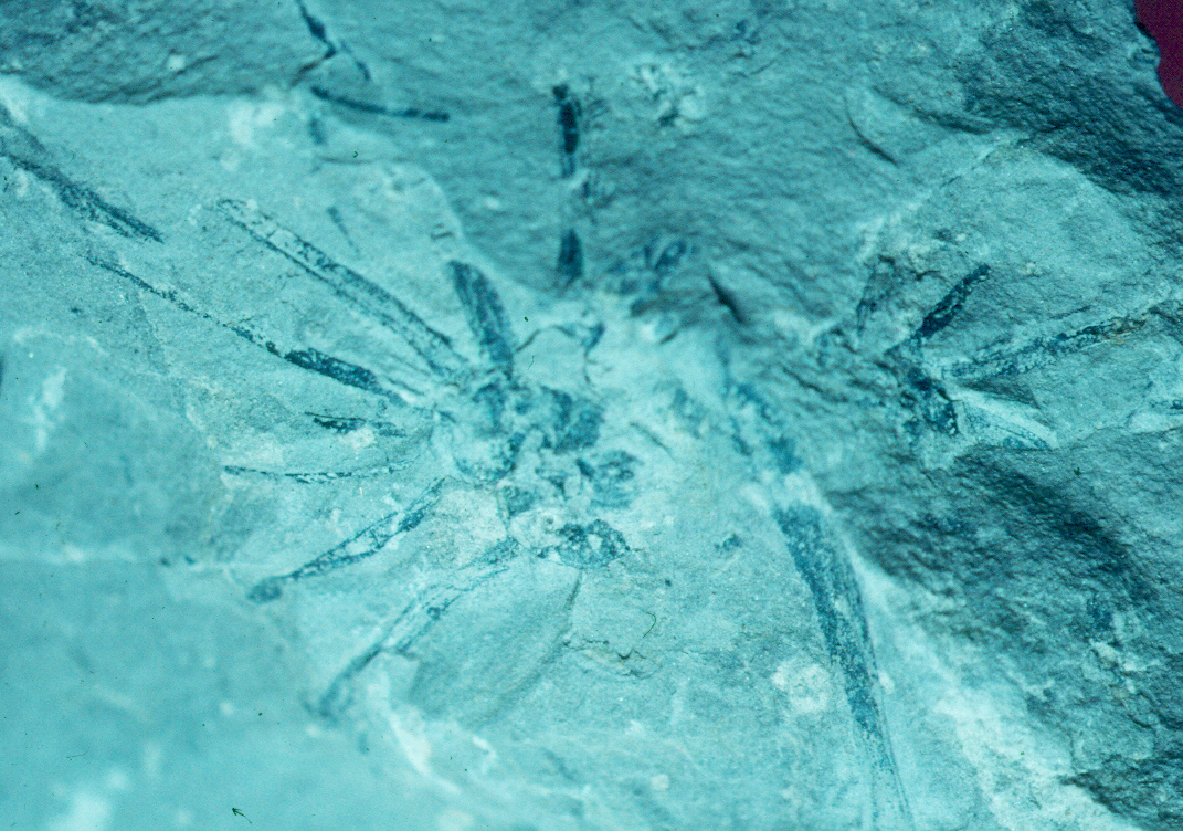 Juvenile plant of Tomiostrobus australis from earlyTriassic Newport Formation, Narrabeen, NSW, Australia